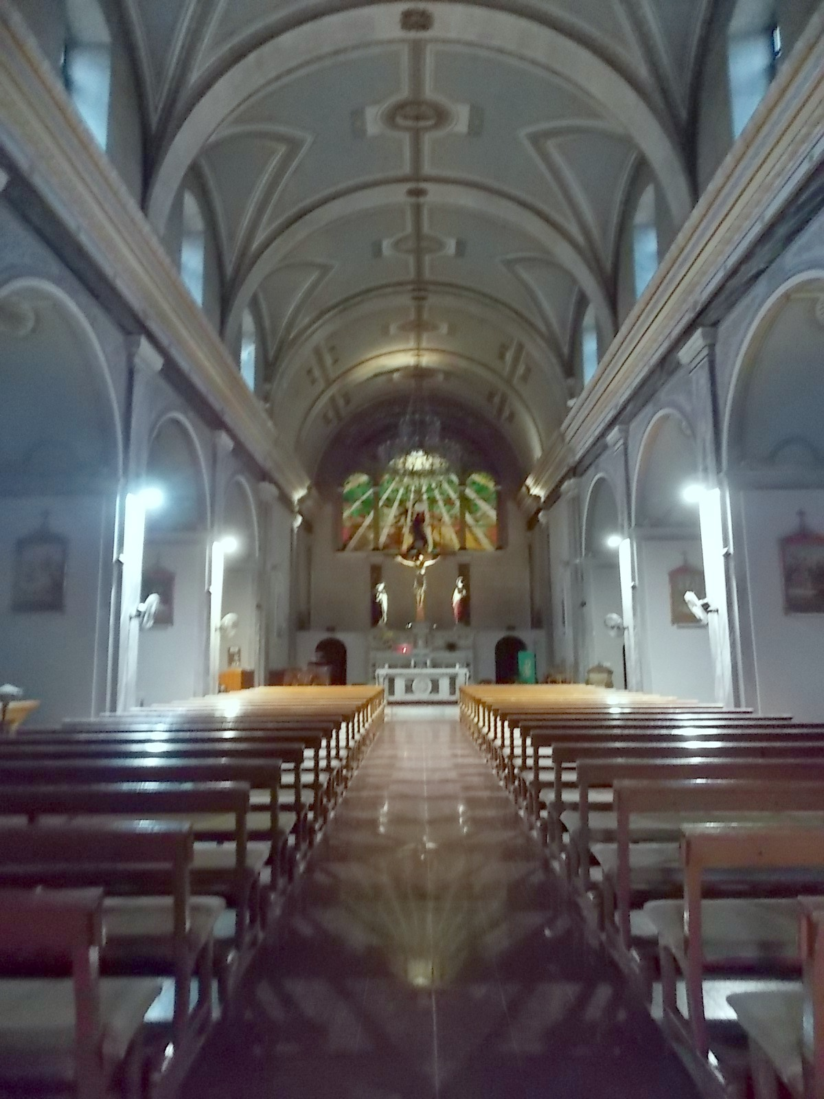 The Catholic Holy Cross Church in Nicosia, Cyprus. Interior